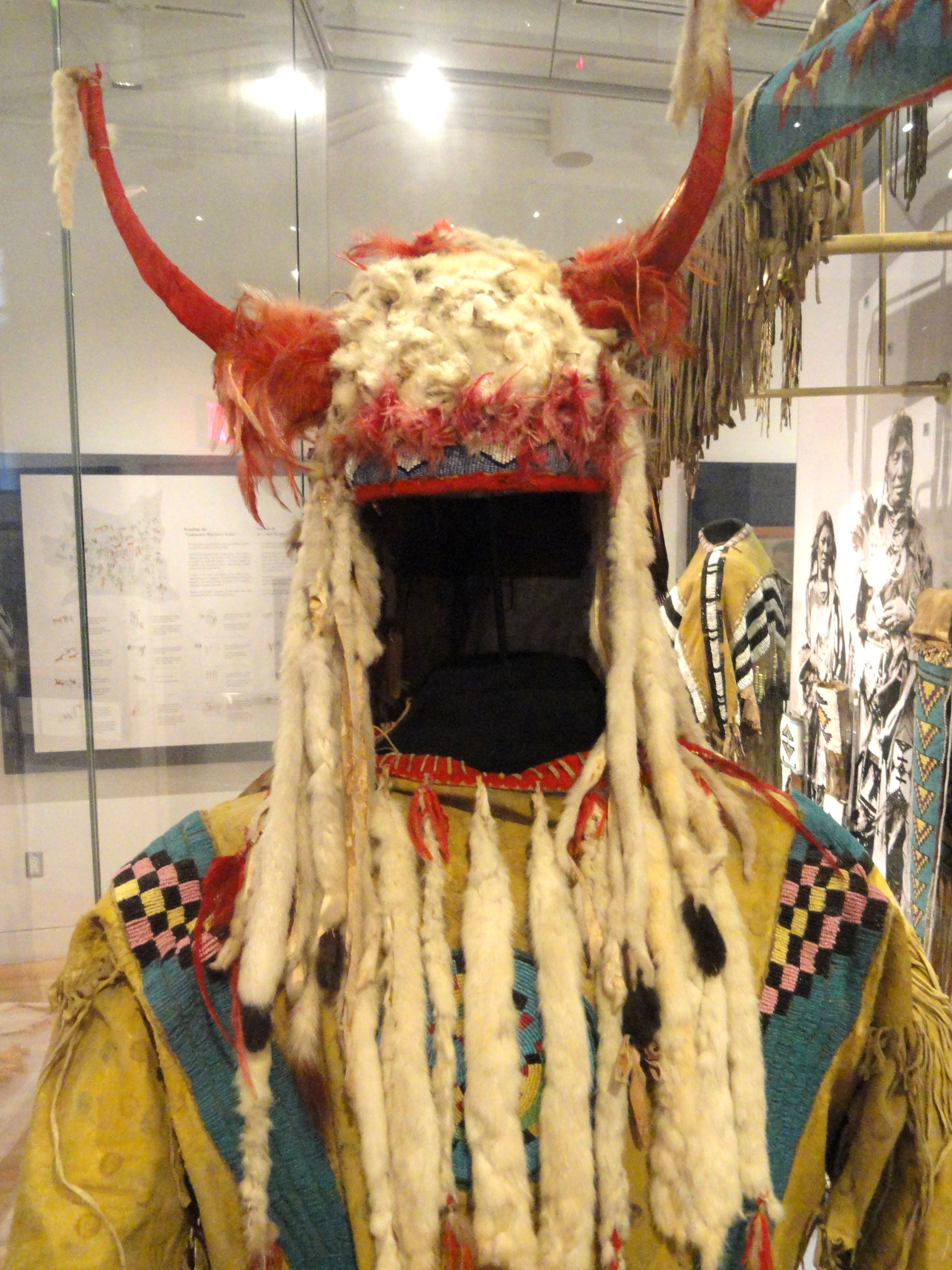 Exhibit in the Royal Ontario Museum, Toronto, Ontario, Canada. Photography was permitted in the museum. I took this photograph and release it into the public domain.